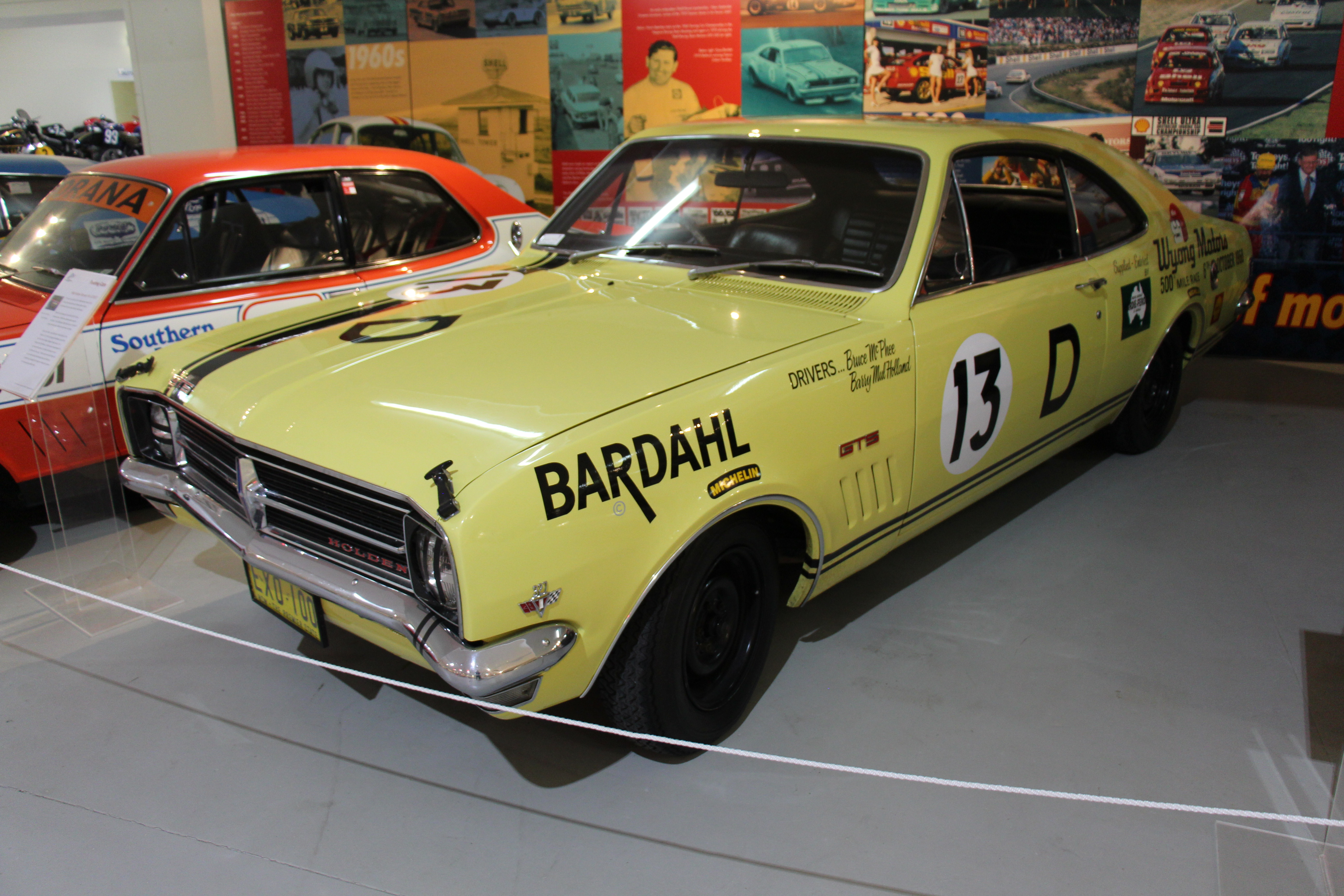 Warrick Yellow The HK Holden was built from Jan 1968-May 1969. With the HK, the new 2 door coupe; the Monaro was introduced, available in base, sporty GTS and race ready GTS327. The V8, also a first in a Holden. The GTS got full instrumentation, the tacho was on the centre console, vents in the guards and racing stripes. The HK Monaro became the basis for a car that was very competitive on the race track The newly formed Holden Dealer Racing Team would run three Monaros at 1968 Hardie Ferodo 500 at Bathurst, which were separately financed by three different Holden dealers, Patterson Motors (Victoria), Midway Motors (Queensland) and Sutton Motors (NSW), (with each dealer named on all three cars) But this, a replica of a privately entered GTS 327, won the race, driven by Bruce McPhee and Barry Mulholland beating the Holden Dealers Racing Team cars. McPhee drove all but one lap of the race HDRT car 24D driven by Jim Palmer and Phil West was 2nd, 25D driven by George Reynolds and Brian Muir came in 5th, and this car 23D driven by Paul Hawkins and Bill Brown was disqualified